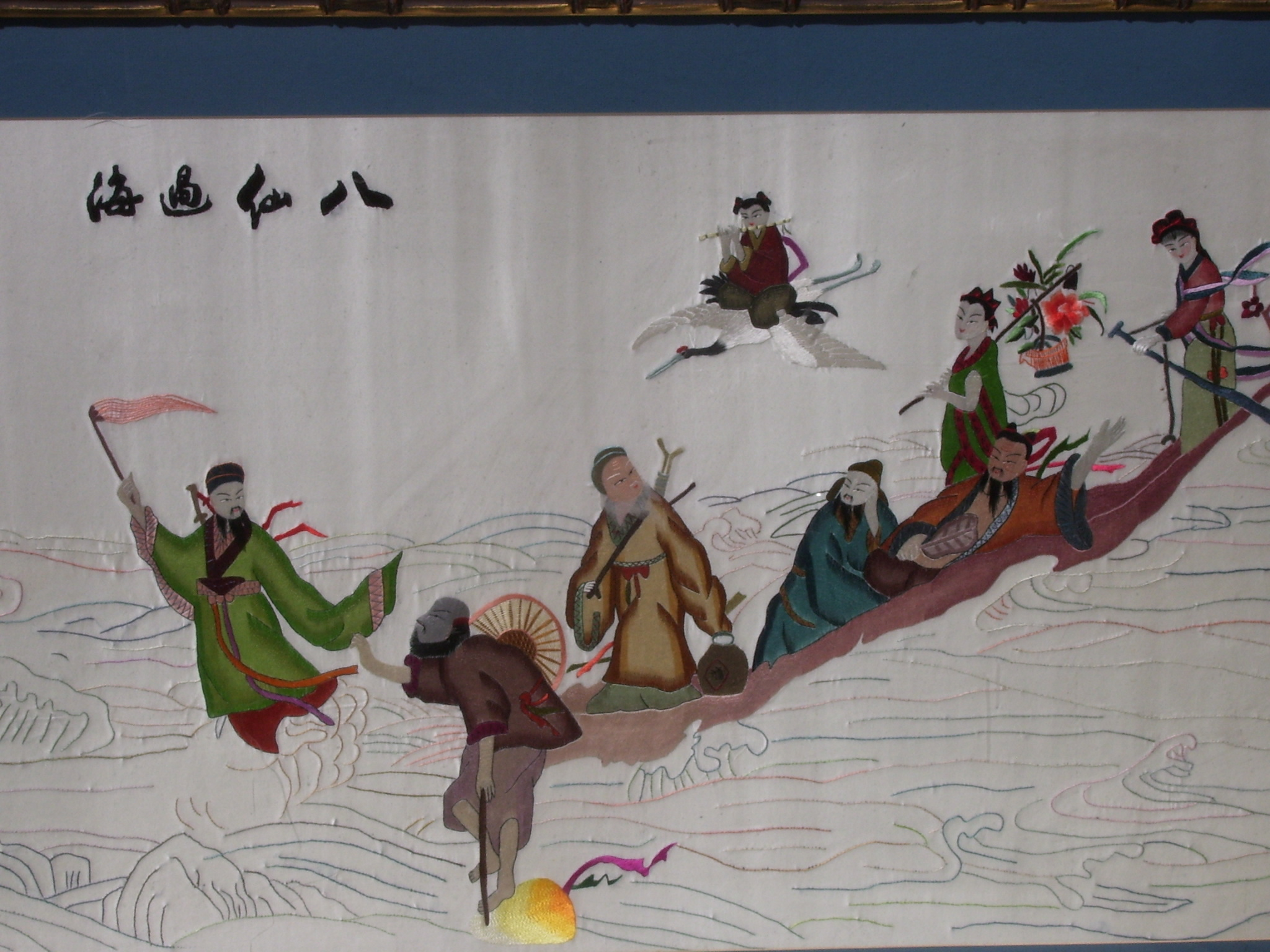 This needlepoint depicts the Eight Immortals as they crossed the ocean on the way to the Conference of the Magical Peach